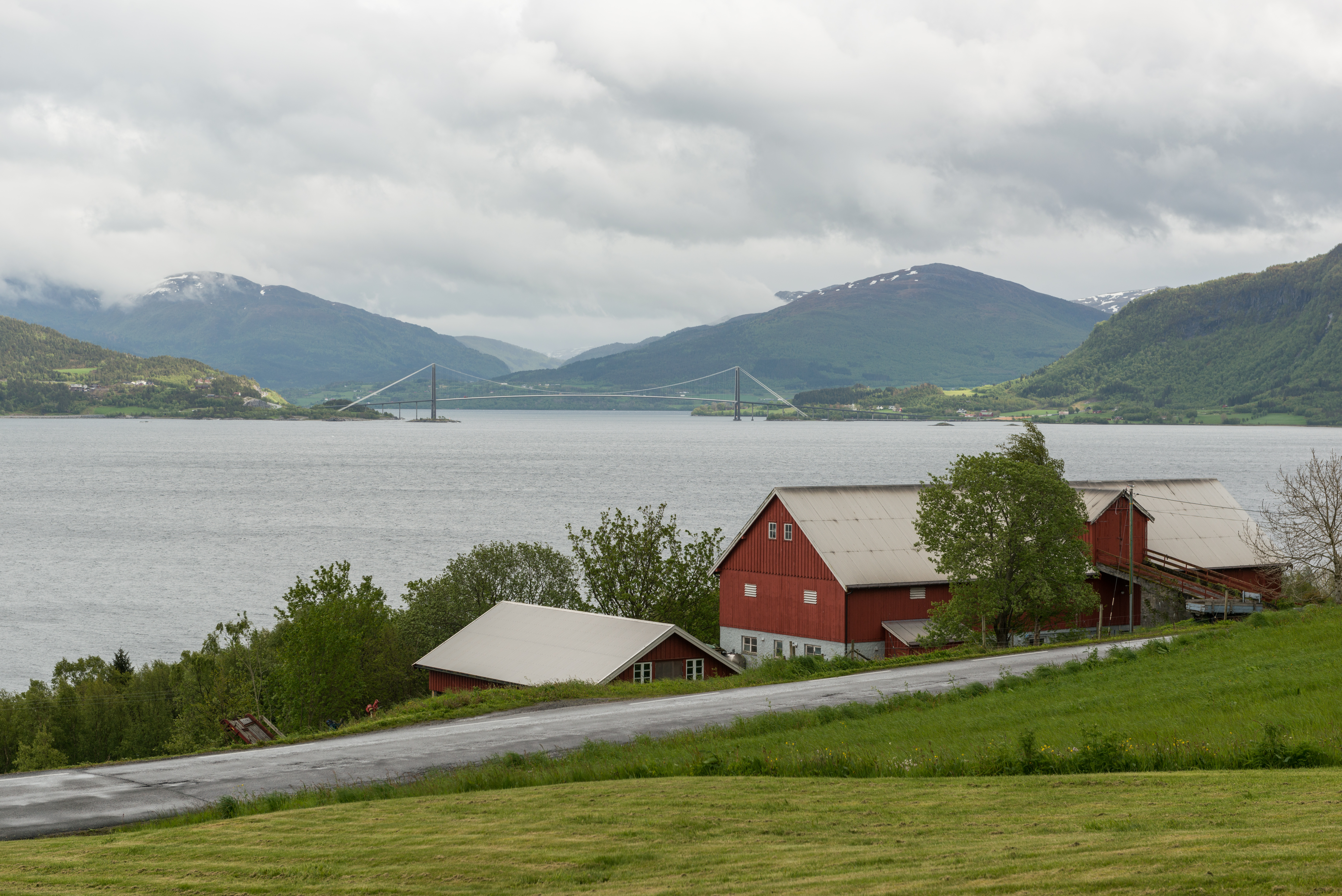 A view of Averøy Island in the foreground and Gjemnessundbrua